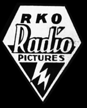 Logo of RKO Radio Pictures